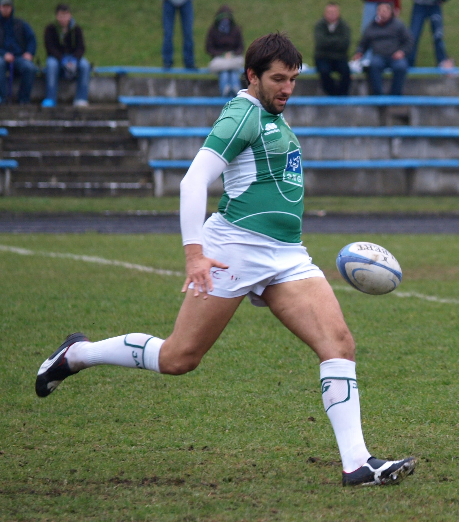 Ukrainian born and Poland international rugby union player Yuriy Bukhalo playing for Lechia Gdańsk in polish Extraleague.